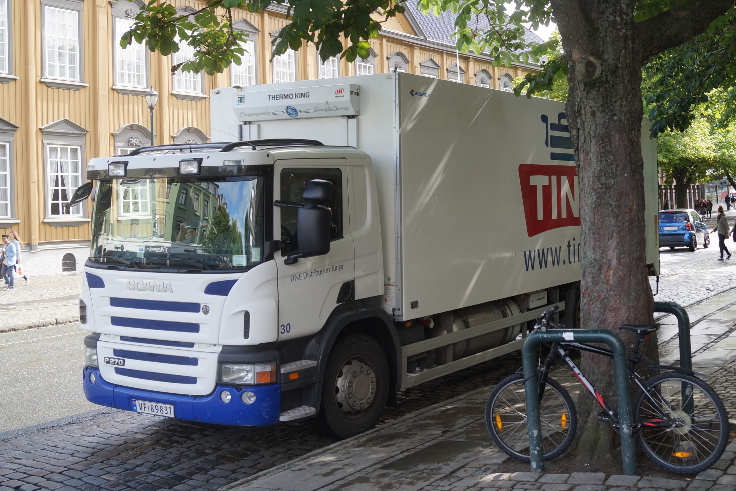 Cryogenic Transport Refrigeration Unit